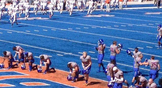 Boise State players praying in the south end zone of Bronco Stadium in Boise, Idaho while UT Martin takes the field behind them before their game on September 7, 2013. Boise State players praying in the south end zone of Bronco Stadium in Boise, Idaho while UT Martin takes the field behind them before their game on September 7, 2013.